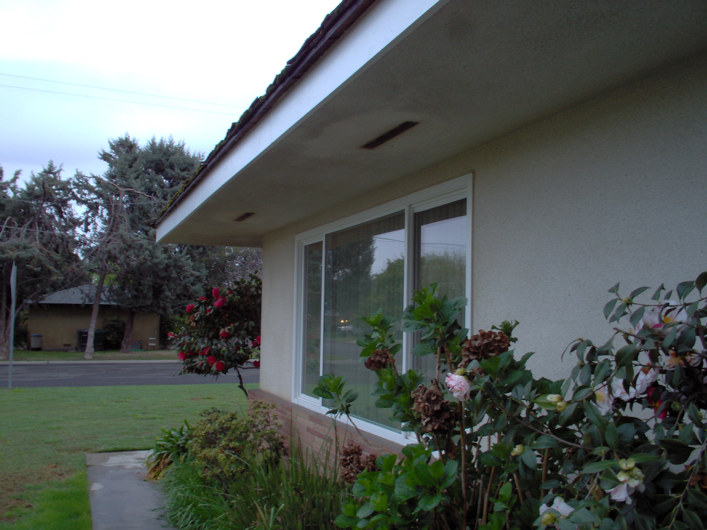 Characteristic wide eaves of a Ranch Style House, built in 1966 in California. Also note original Roman Bricks and retro fit dual pane windows.